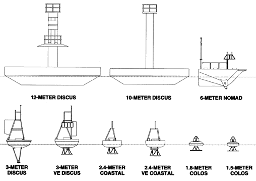 A diagram showing the various types of moored buoys used by the National Climatic Data Center, United States